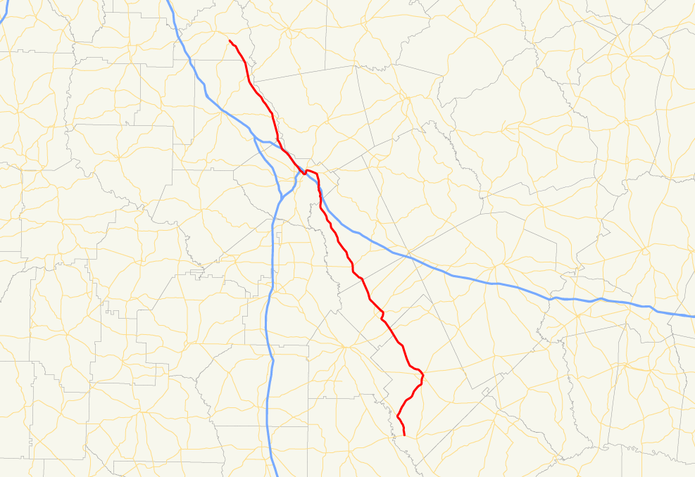 Map of Georgia State Route 87